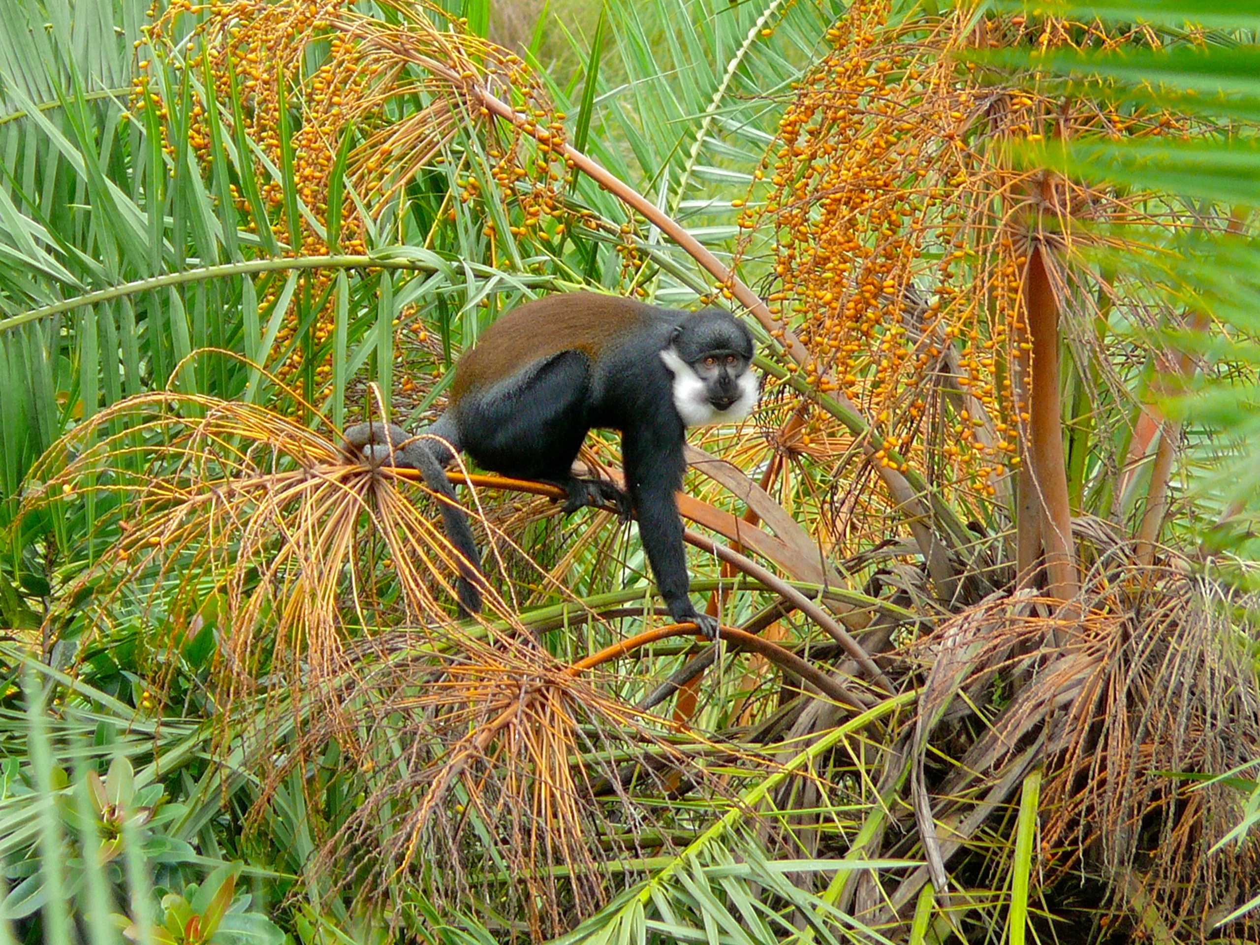 Bigodi Wetland Sanctuary, UGANDA